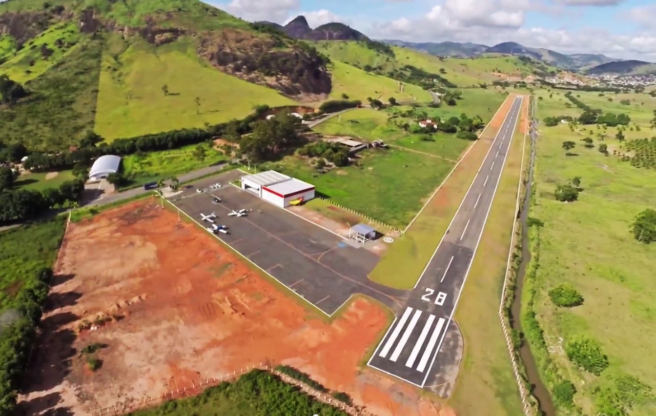 Airport